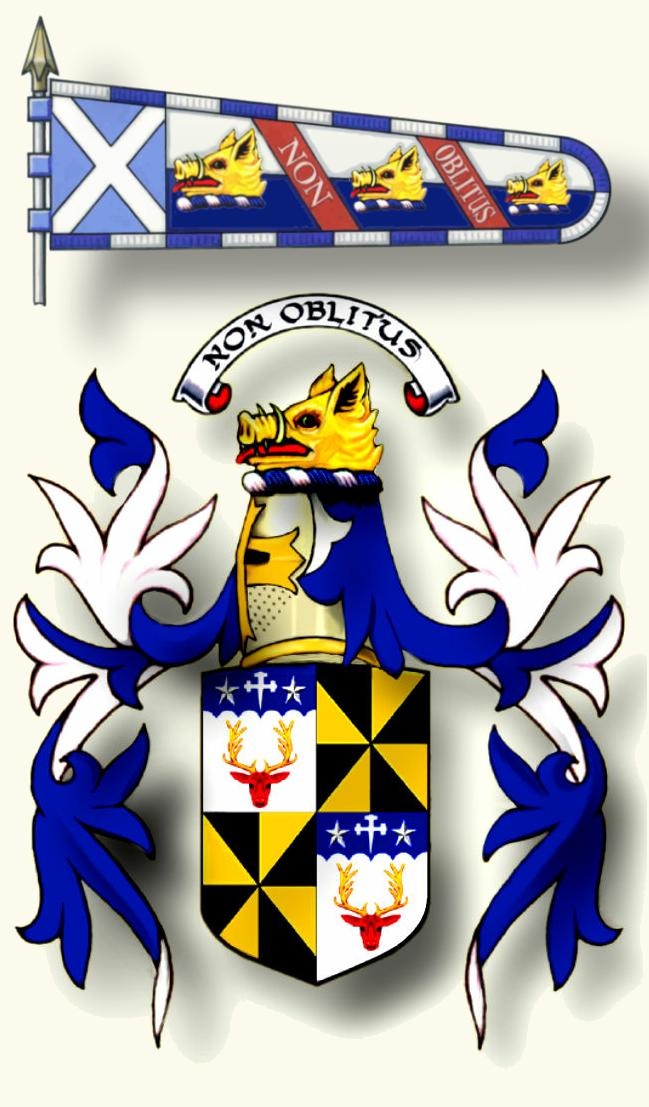 coat of arms of The MacTavish of Dunardy, Chief of Clan MacTavish; ref: Clan MacTavish Seannchie Website, Steven Edward Dugald MacTavish of Dunardry 27th Chief of Clan MacTavish, and Clan MacTavish Trademarks